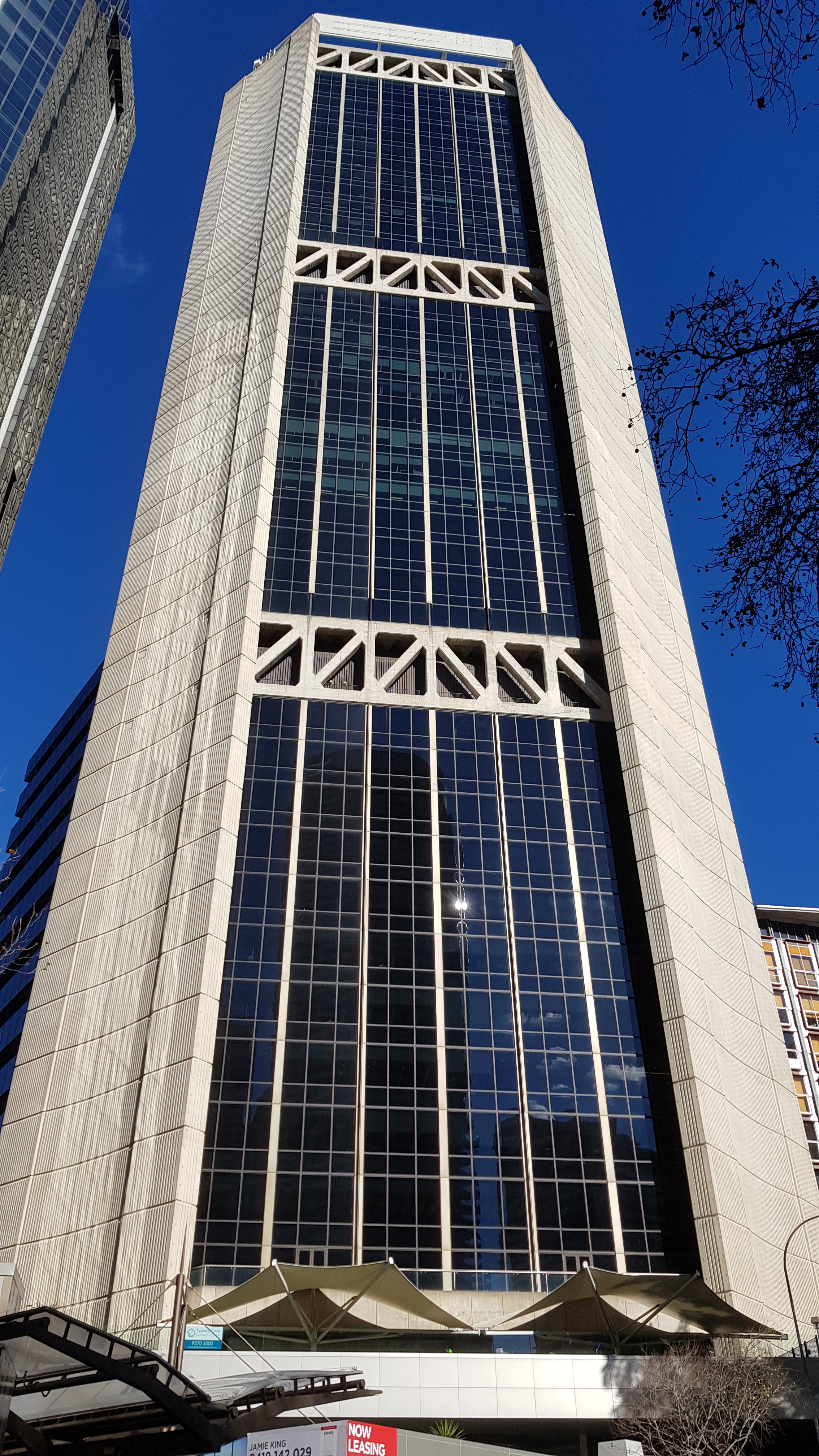 Suncorp Place skyscraper